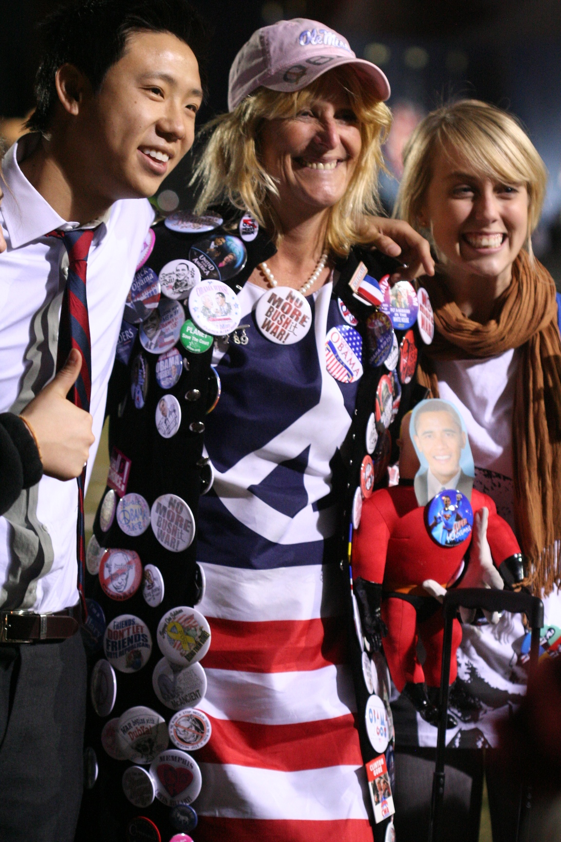 Barack Obama Grant Park Chicago 2008